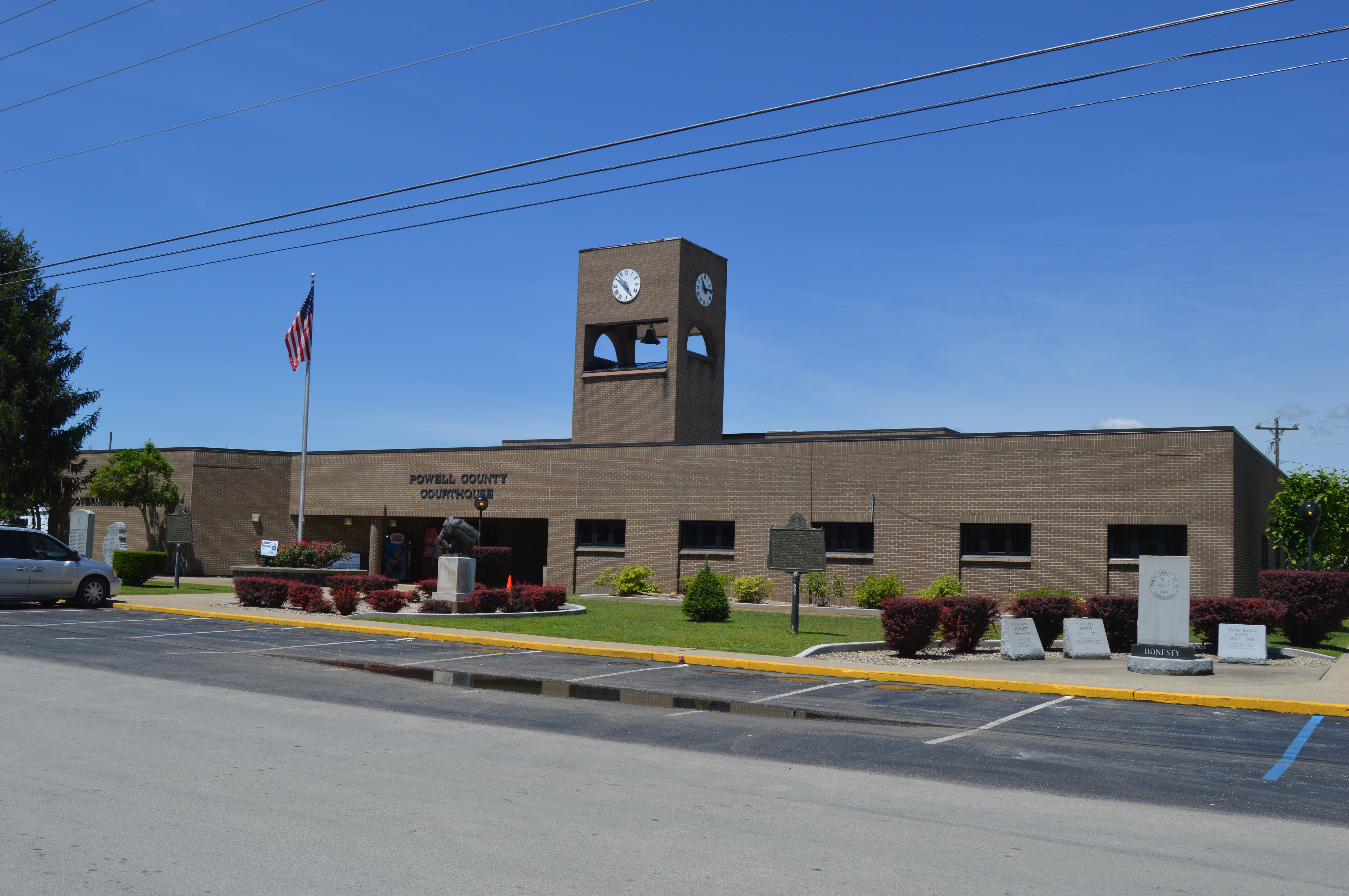 Front of the Powell County Courthouse, located at 525 Washington Street in Stanton, Kentucky, United States.